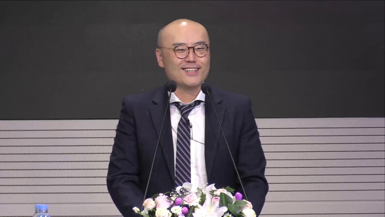 이정훈교수